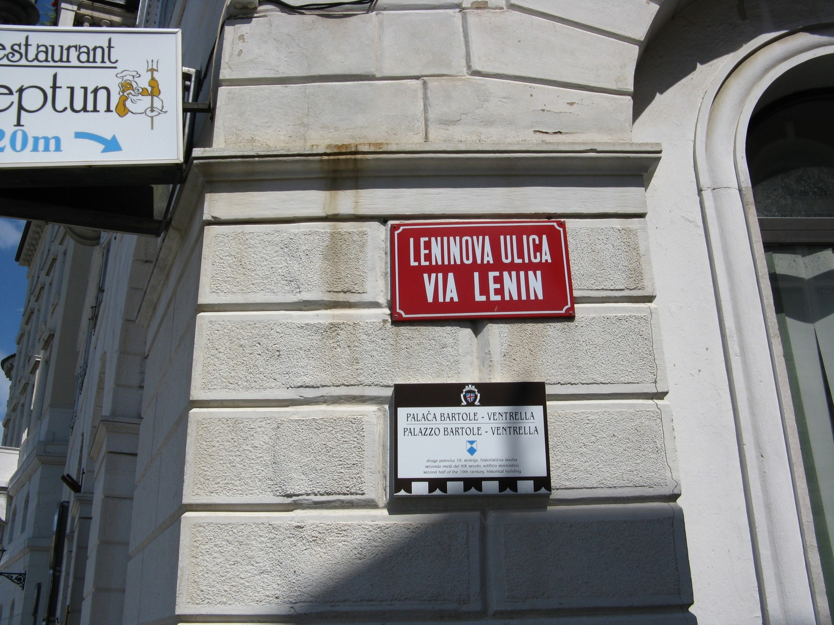 Piran, city in Slovenia - Lenin Street